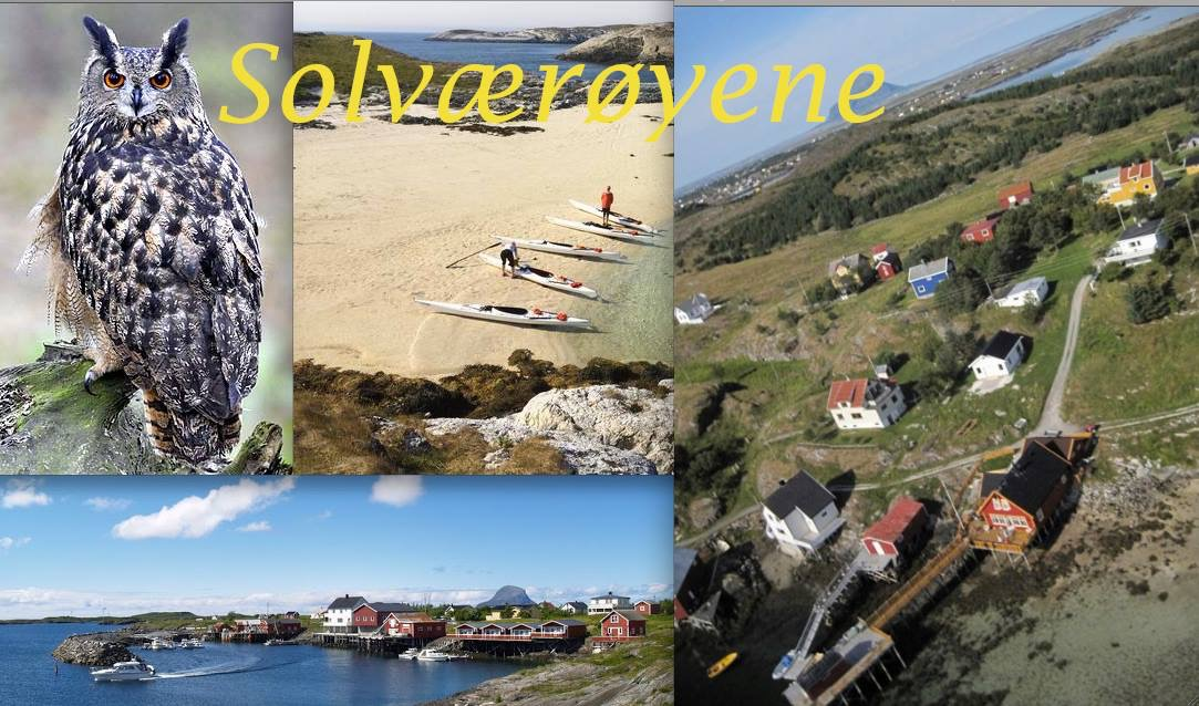 The Solvaer Islands